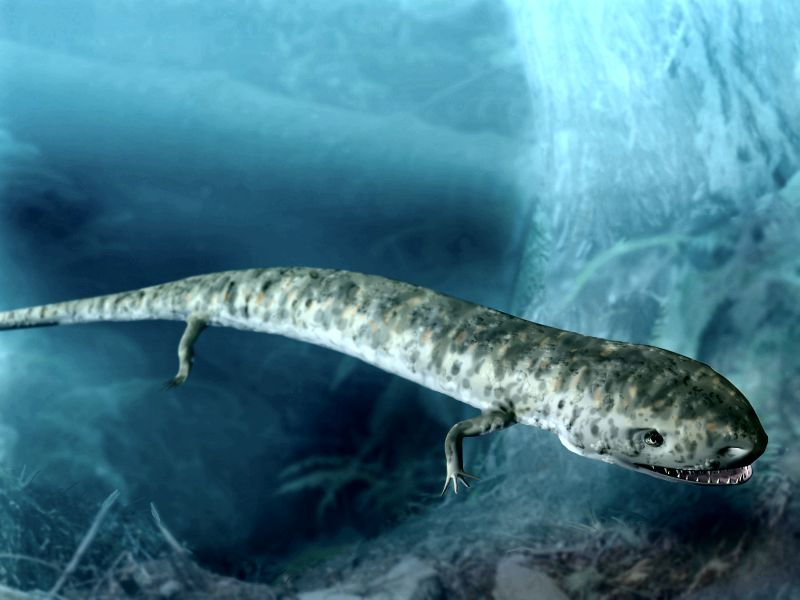 Cardiocephalus peabodyi, a microsaur from the Early Permian of Oklahoma. Digital.